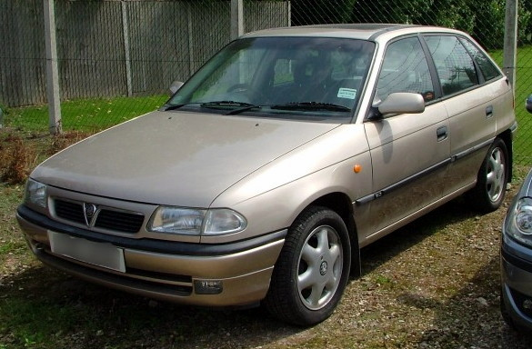 Vauxhall Astra Mk 3 Hatchback P reg, taken at a Vauxhall dealership. Reg plate blurred for privacy reasons.